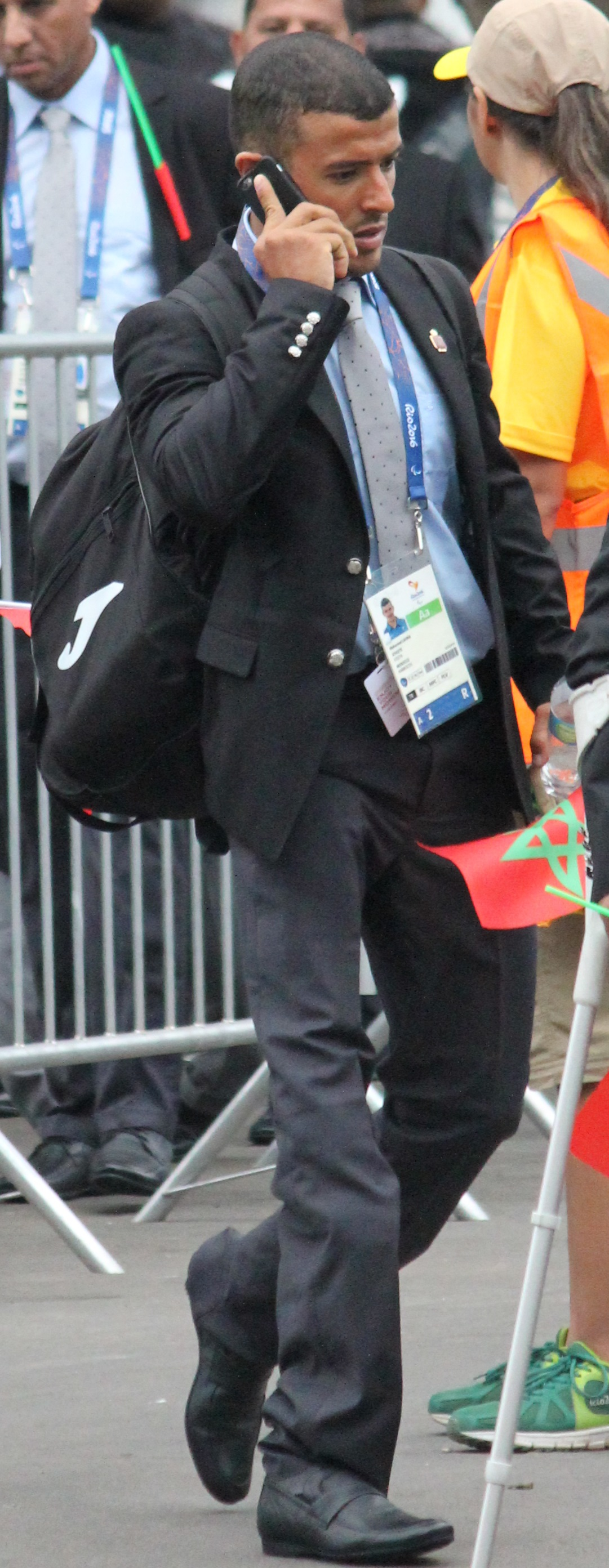 Mohamed Lahna, Moroccan paratriathlete at 2016 Paralympics